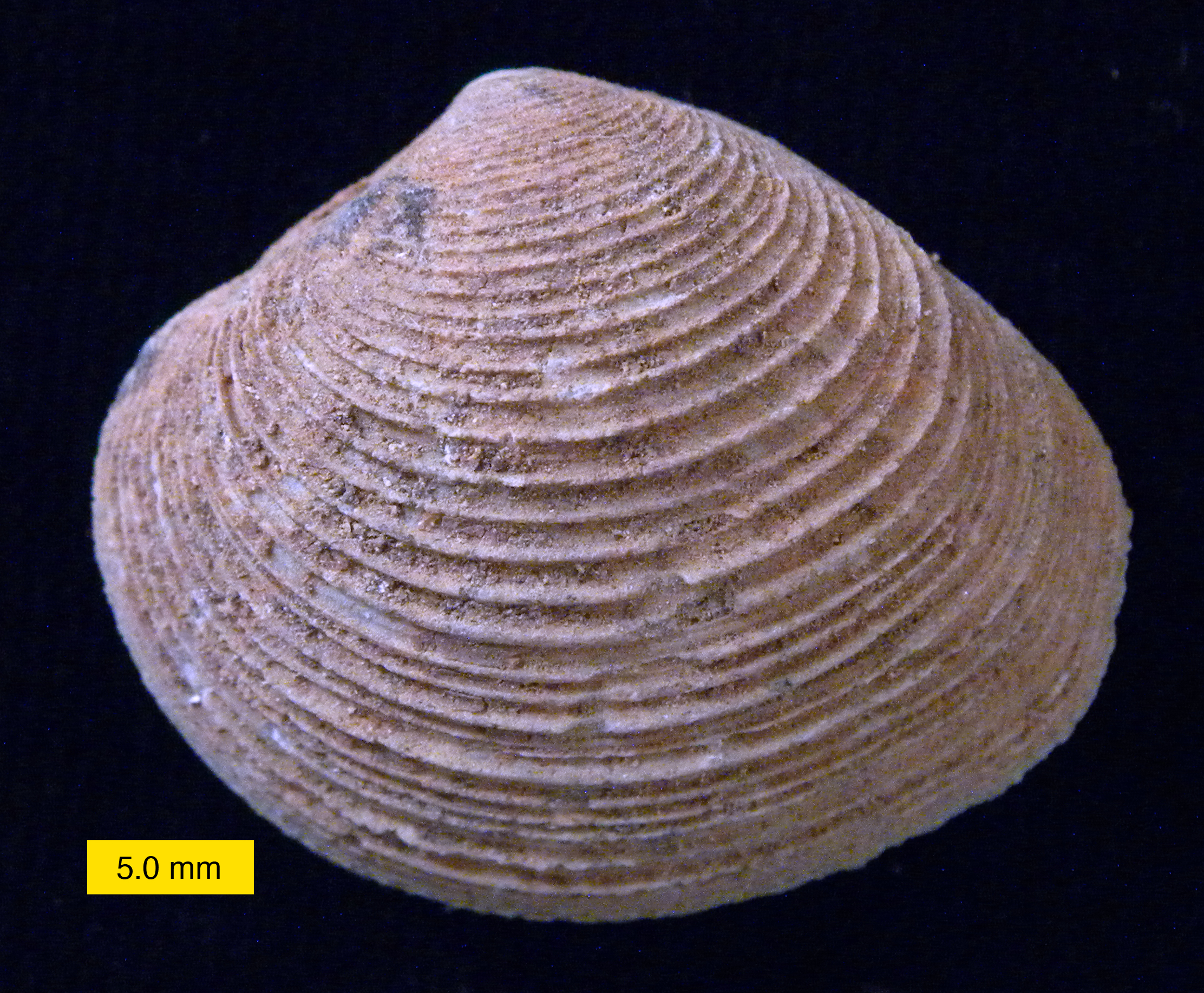 Venerid bivalve; Wadi Umm Ghudran Formation (early Campanian), near Amman, Jordan (N 32° 09.241', E 36° 12.960').